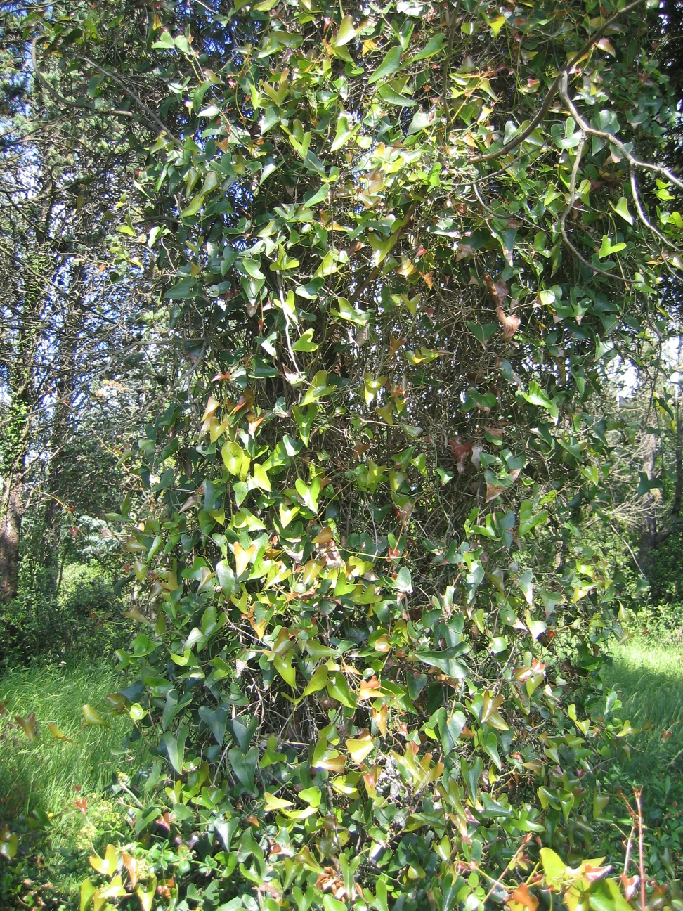 Smilax aspera. This photograph was taken on 2008-06-07 at Getxo in the Bizkaia province of the Basque Country (Europe), using a Canon PowerShot S50 camera. The original size was 2592x1944 pixels, it was reduced to the present size (1296x972 pixels) using the IrfanView freeware program.